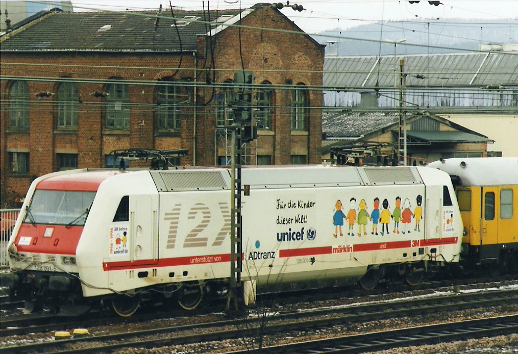 The Adtranz (AEG) prototype electric locomotive "12X" (DB class 128 001-5) at Trier Central Station, Rhineland-Palatinate, Germany, on 25 February 1996 during track force measurements.